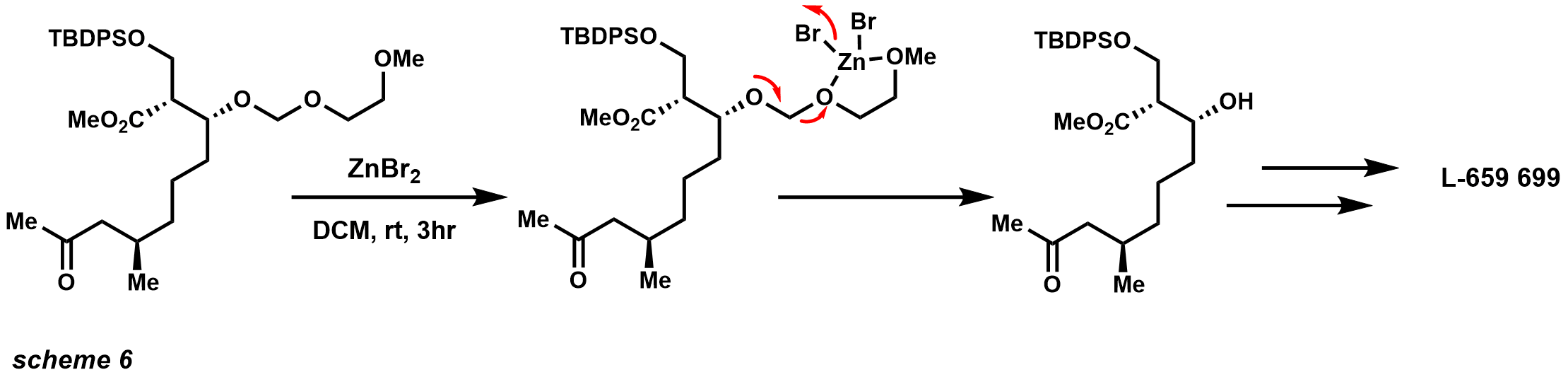 cleavage of MEM group with zinc